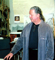 The studio of world-renowned sculptor Albert Paley in Rochester, NY.